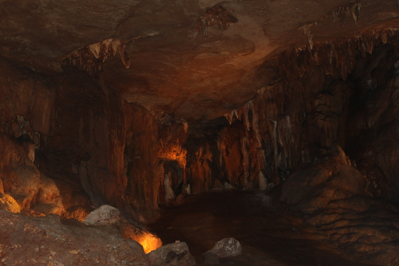 Image of Fantastic Cavern near Springfield, Missouri. Photo was taken on May 31, 2010.